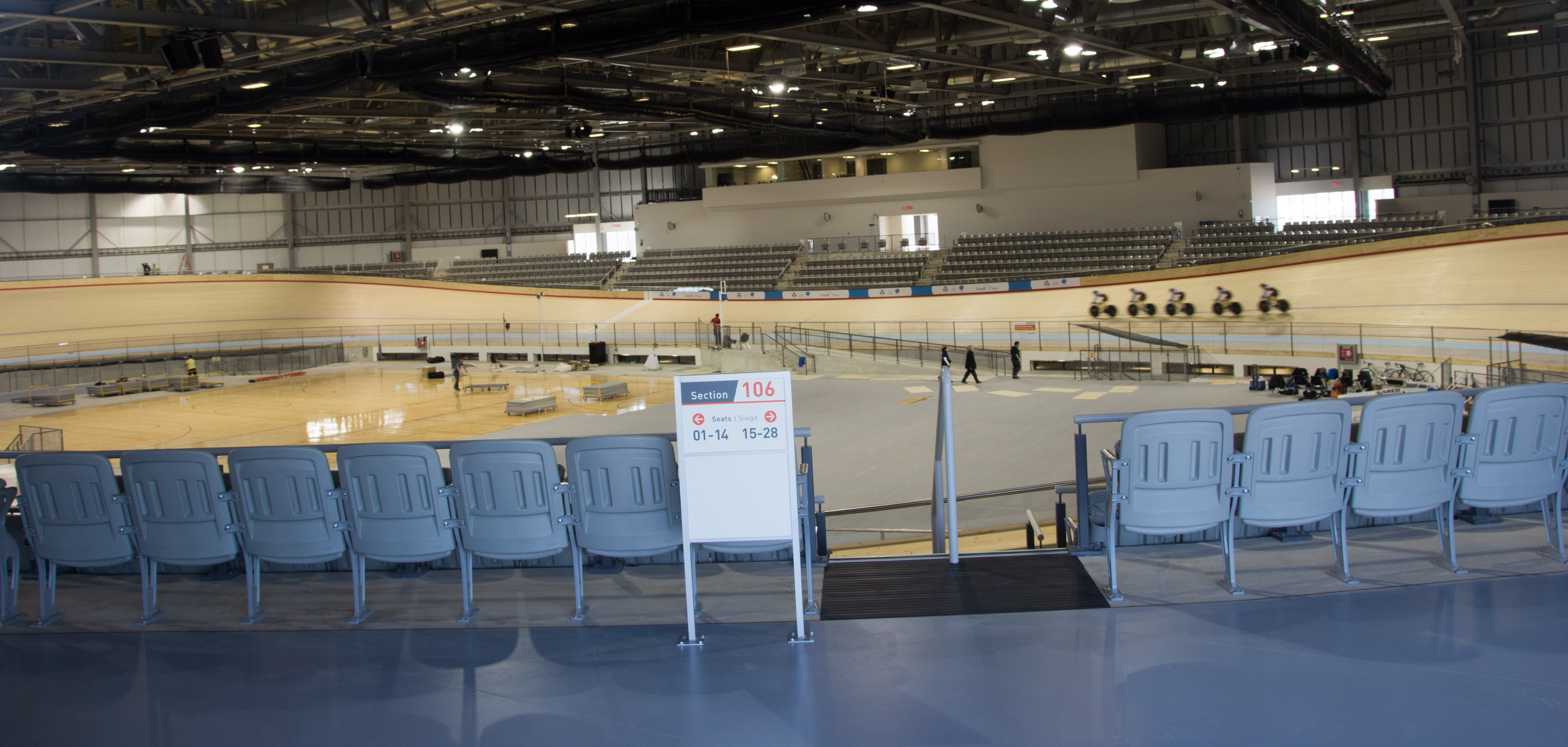 Cyclists training on the track at the Mattamy National Cycling Centre.